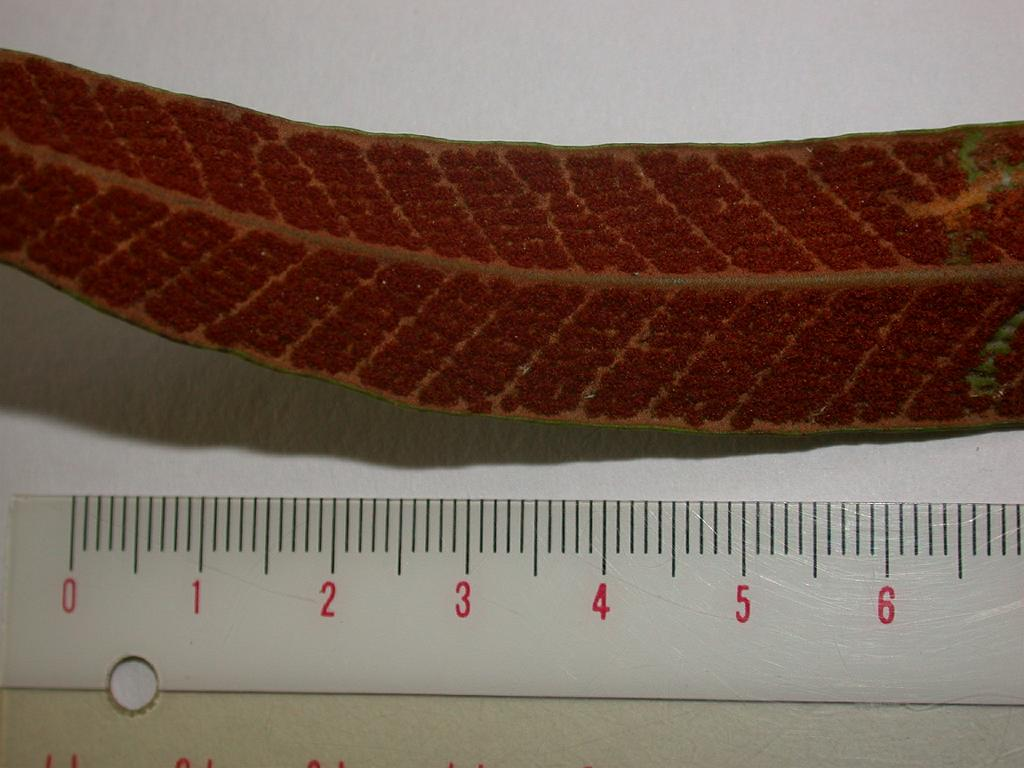 Name Pyrrosia lingua （ヒトツバ） Family Polypodiaceae(Pteridophyta) Date;2006,11;Susami town, Wakayama prefecture, Japan Author;Keisotyo